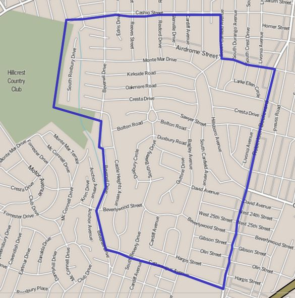 Map of the Beverlywood neighborhood — in western Los Angeles, California. As delineated by the Los Angeles Times.